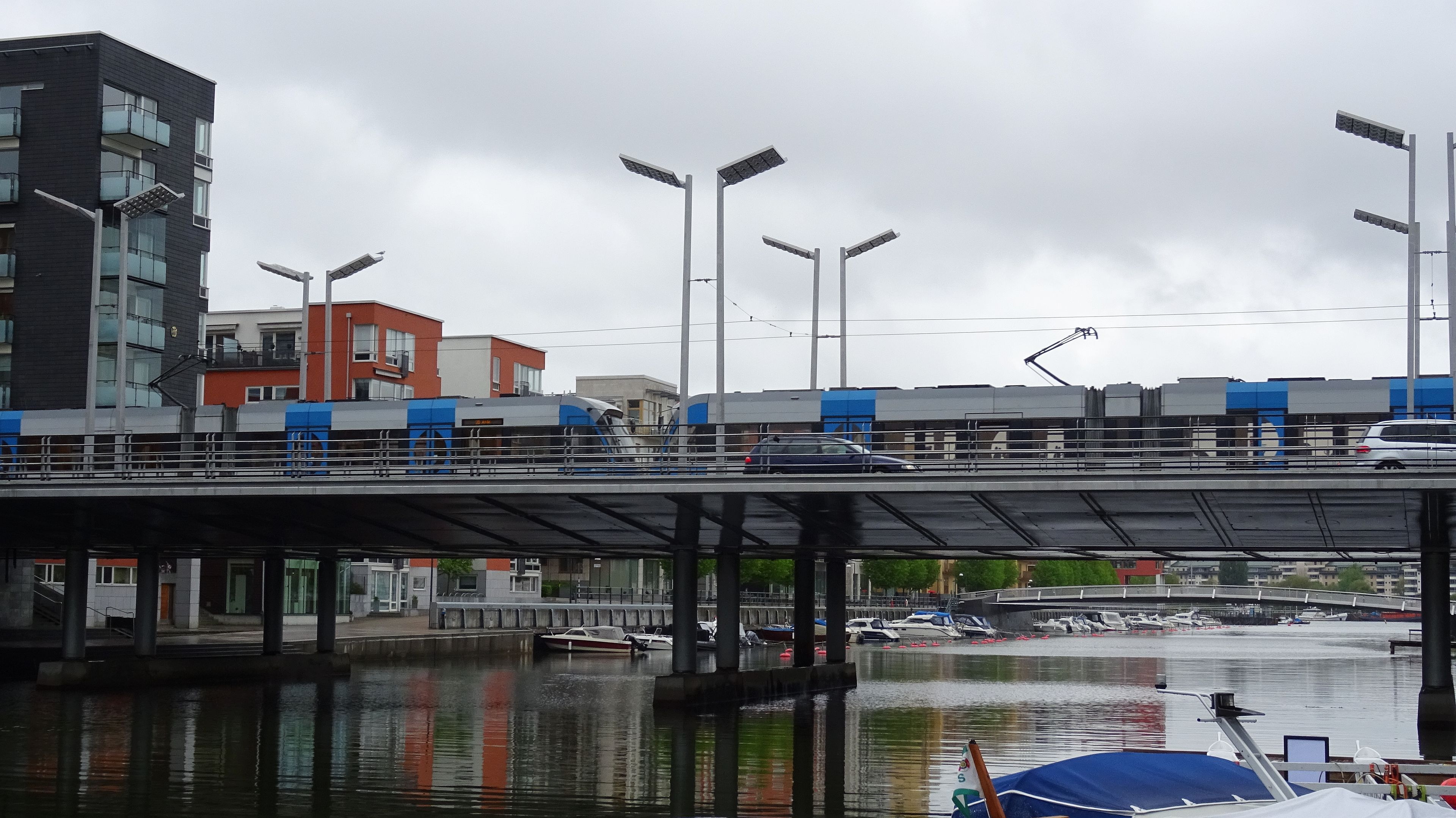 Stockholm's Tvärbanan, the train passing over Sickla kanal